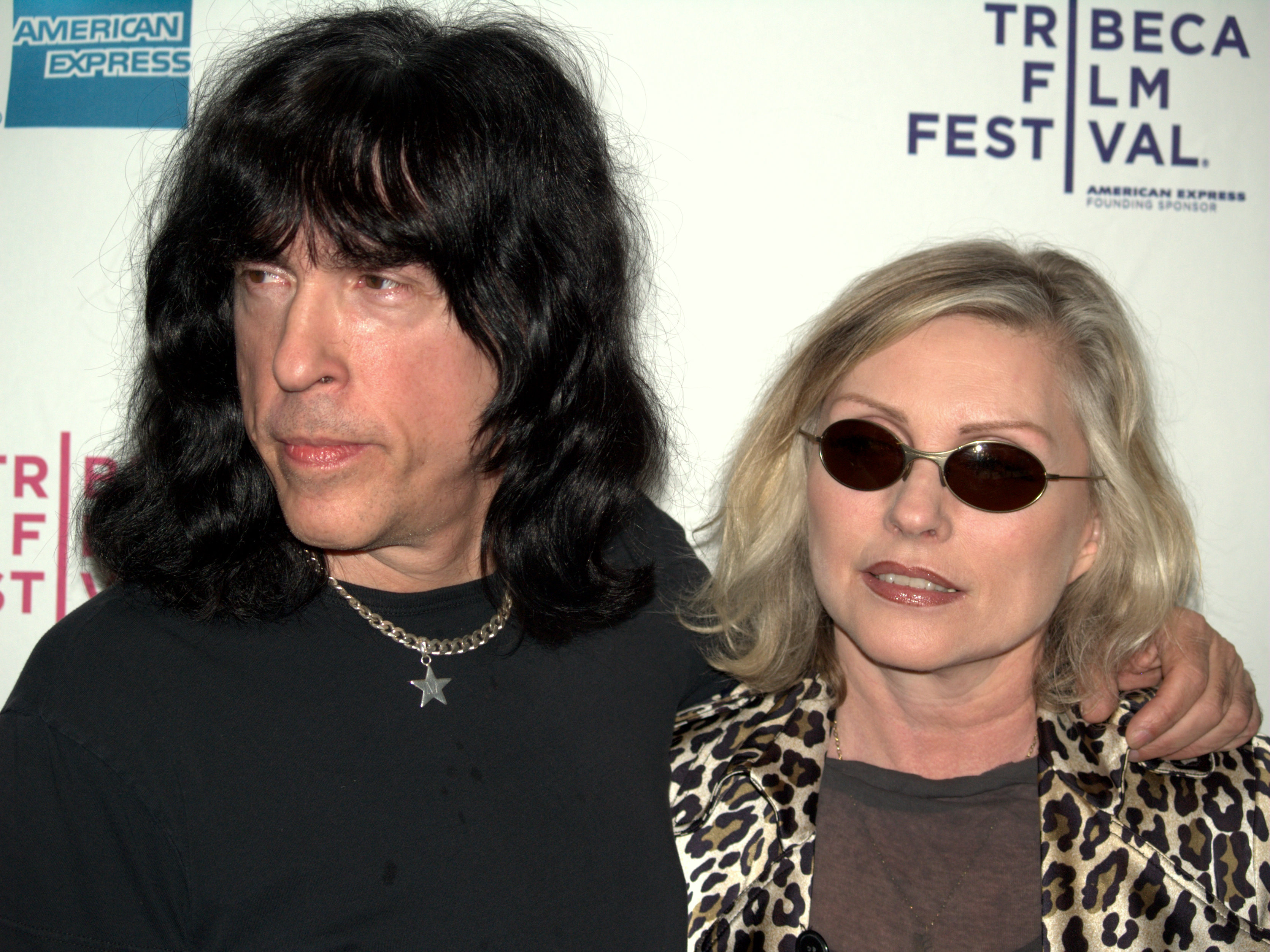 Marky Ramone and Debbie Harry at the 2009 Tribeca Film Festival for the premiere of Burning Down the House, a documentary about famous New York City rock and roll venue CBGB.